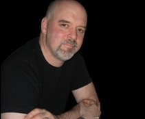 Photo of Peter McConnell, taken from his site.